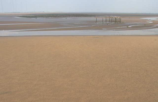 Moricambe Bay is an inlet of the Solway Firth in Cumbria